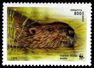 Stamp of Belarus